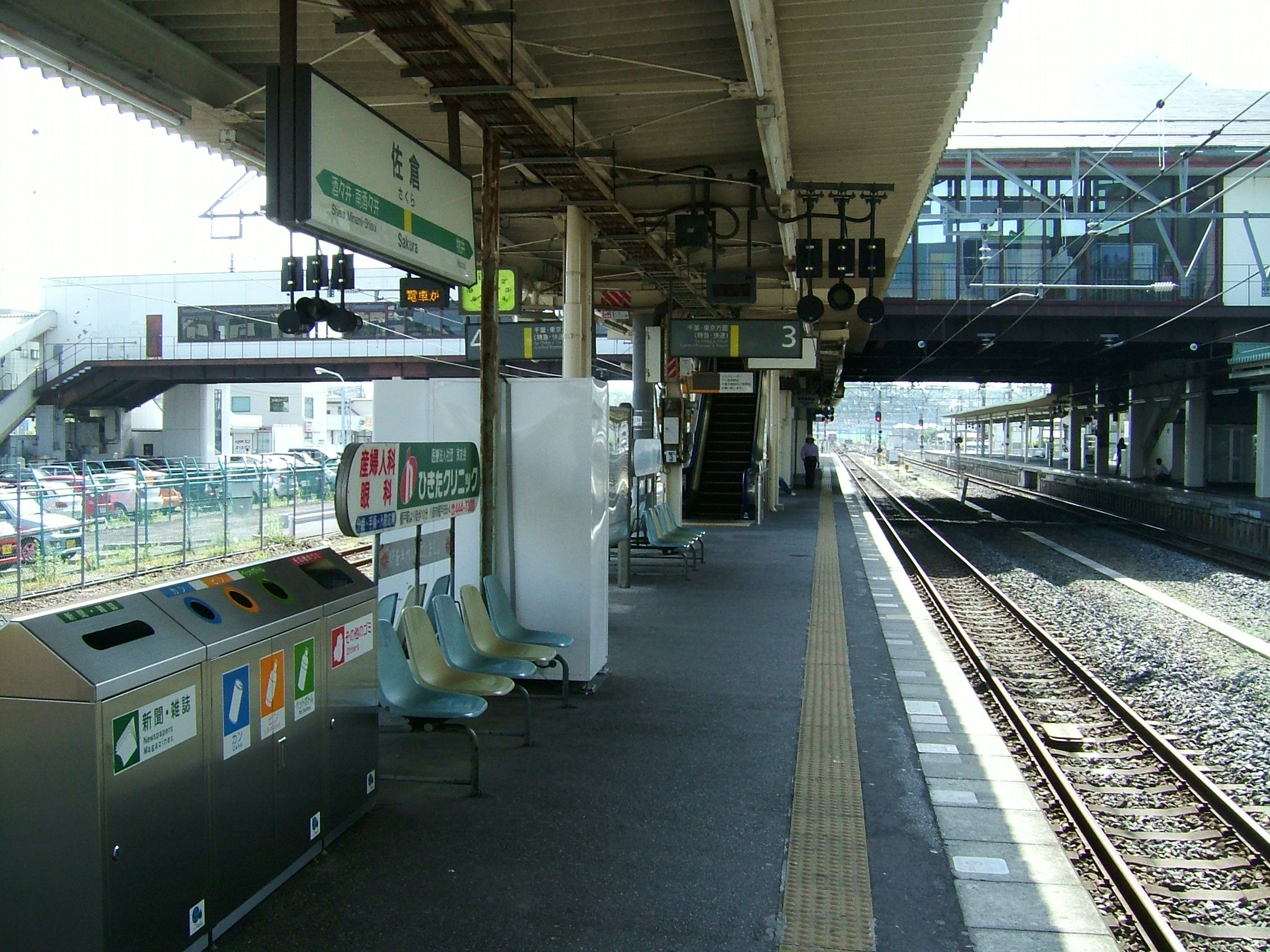 Sakura Station no. 3 and 4 platform (East Japan Railway Sōbu Main Line, Narita Line)